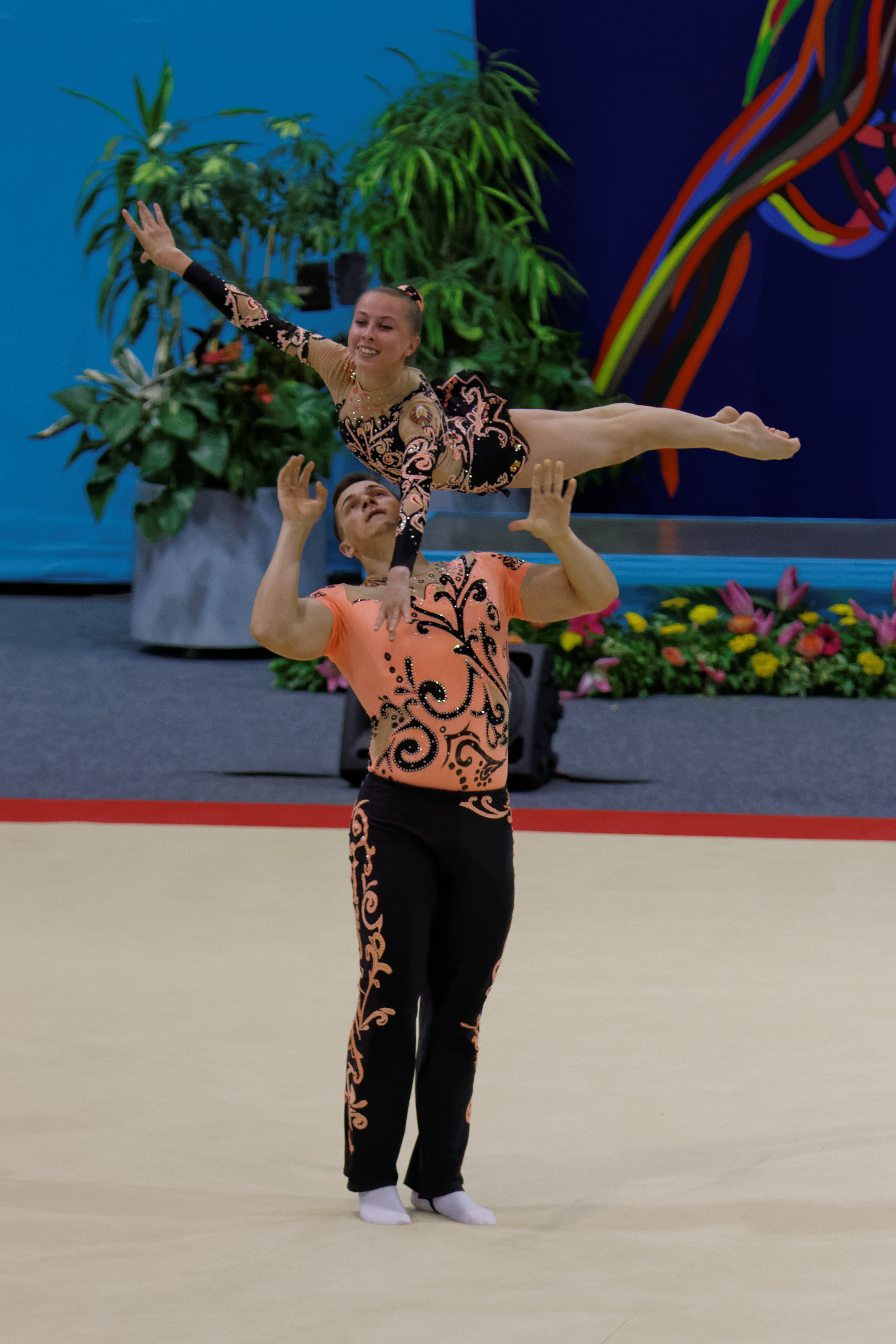 2014 Acrobatic Gymnastics World Championships, 10th-12 July, Levallois-Perret, France. Finals: mixed pair. Belarus 1.